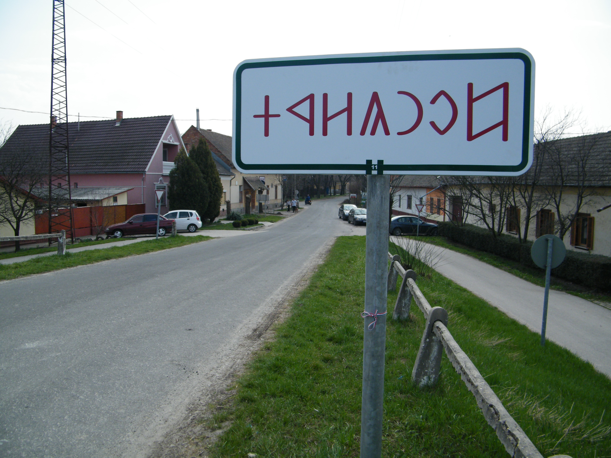 City limit table in Csongrad, Hungary. Traditional hungarian letters (rovas)